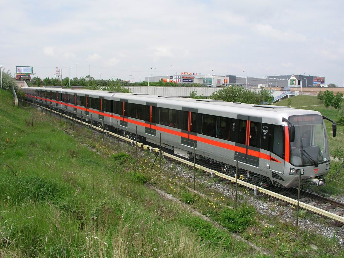 metro